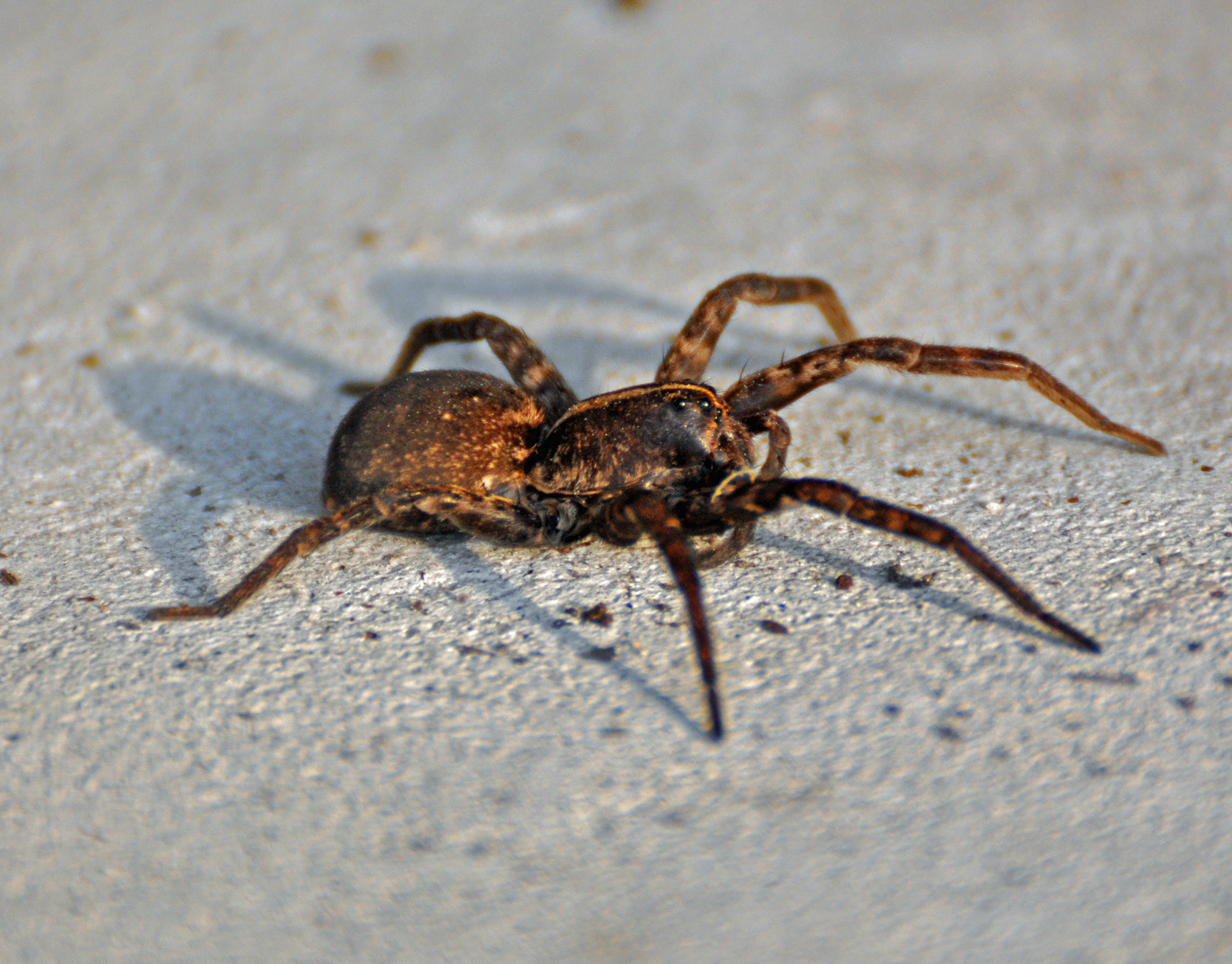 Large Wolf Spider, originally identified as Hogna carolinensis, but it appears to be a Tigrosa species – this genus has a narrow median stripe on the carapace